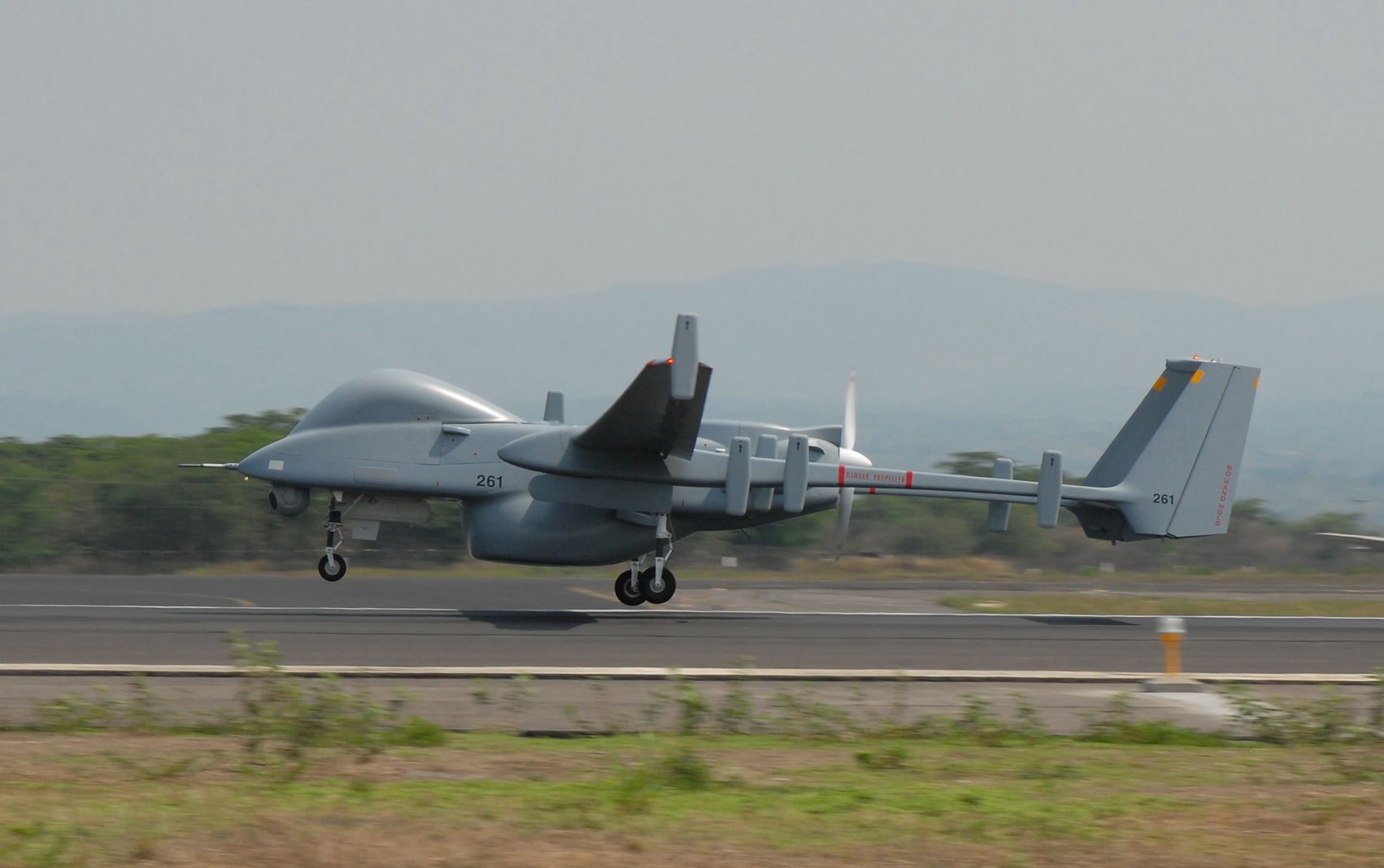 COMALAPA AIR BASE, El Salvador - The Heron Unmanned Air Vehicle (UAV) takes off from the Comalapa airport runway during a counter drug support mission May 21. The Heron UAV is part of an Unmanned Air System (UAS) deployed to El Salvador through May 27 to support a month-long evaluation initiative called Project Monitoreo to assess the suitability of using unmanned aircraft for counter drug missions in the U.S. Southern Command area of focus.